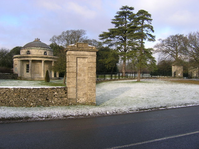 Dodington Park, South Gloucestershire, Bath Lodge. c1805, now just north of J18 M4, set back from the A46. This grand entrance serves as the southern entrance to the estate of Dodington, ancestral home of the Codrington family. Now closed to the public.